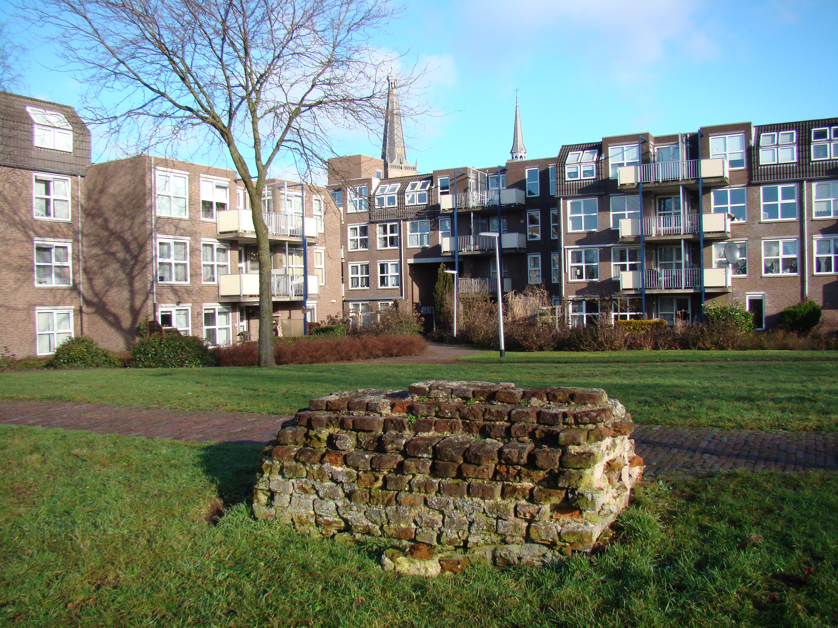 Citywall Doetinchem